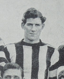 Photograph of Charlie Dummett in 1909.